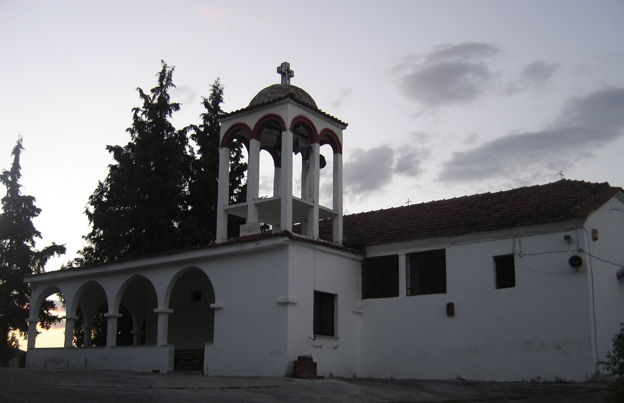 Church of Saint George at Megali Gefira.